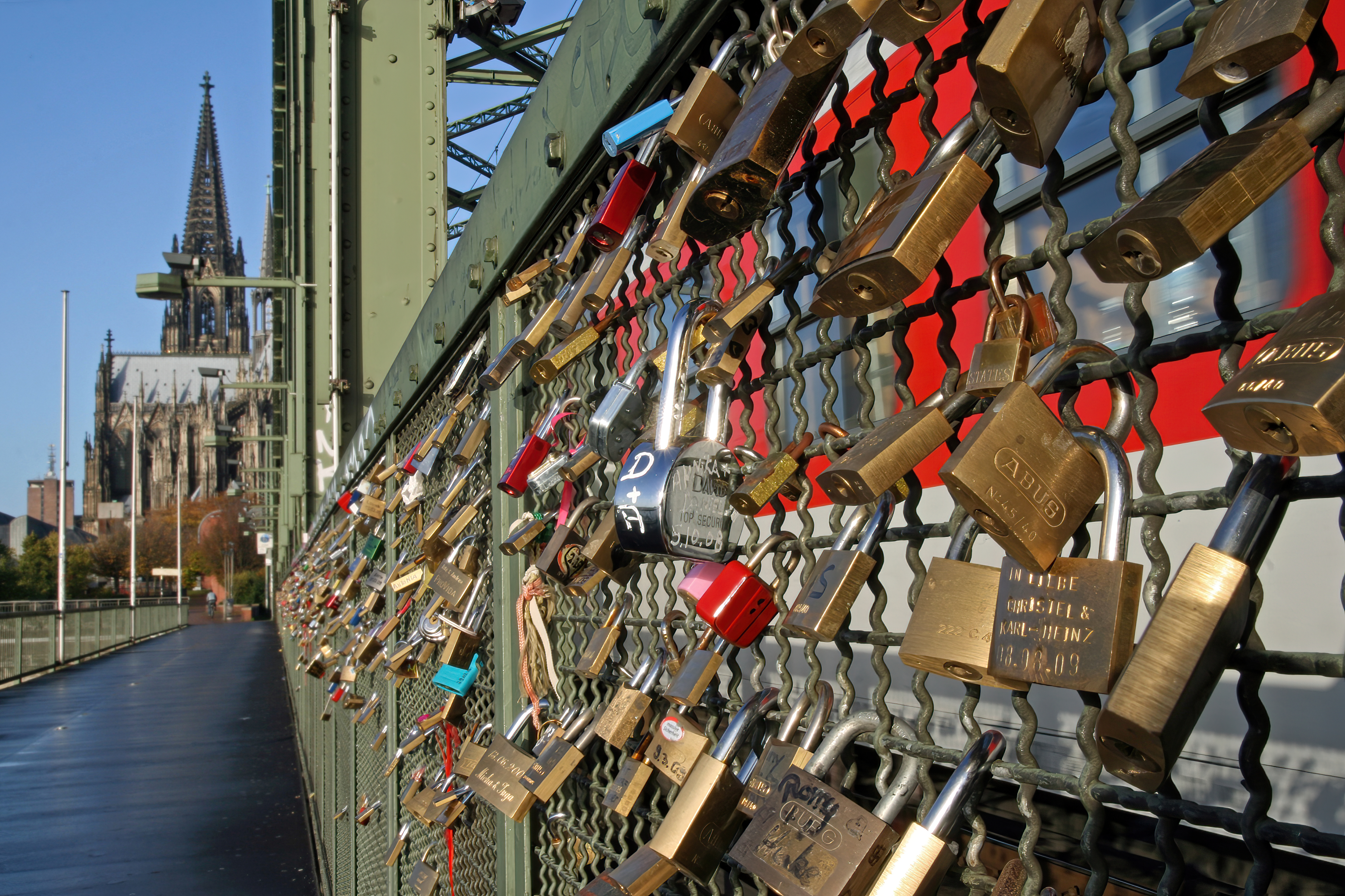 Love padlocks at Hohenzollernbrücke, Cologne